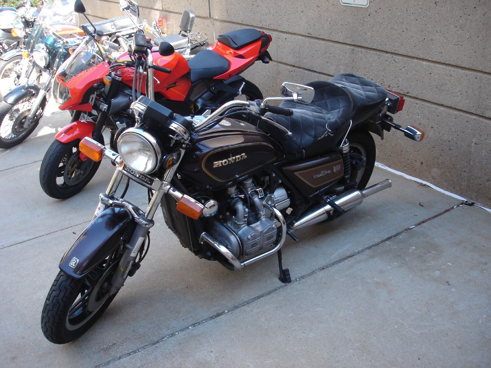 1980 Honda Goldwing